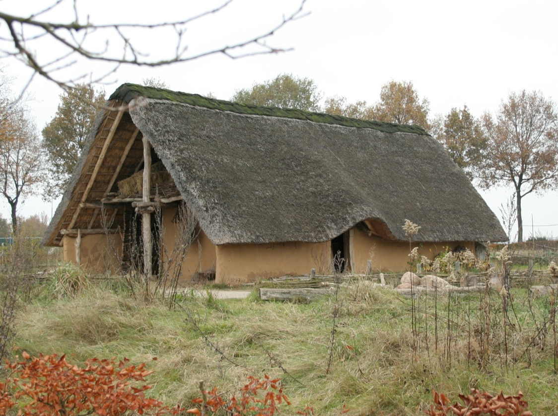 Borger, Netherlands This is a reproduction of the kind of house that would have been around about 5000 years ago in this area (Drenthe). It is fully constructed in natural materials - mud, wood and straw thatched roof. This reproduction can be found in: Hunebedcentrum Borger, the Netherlands (